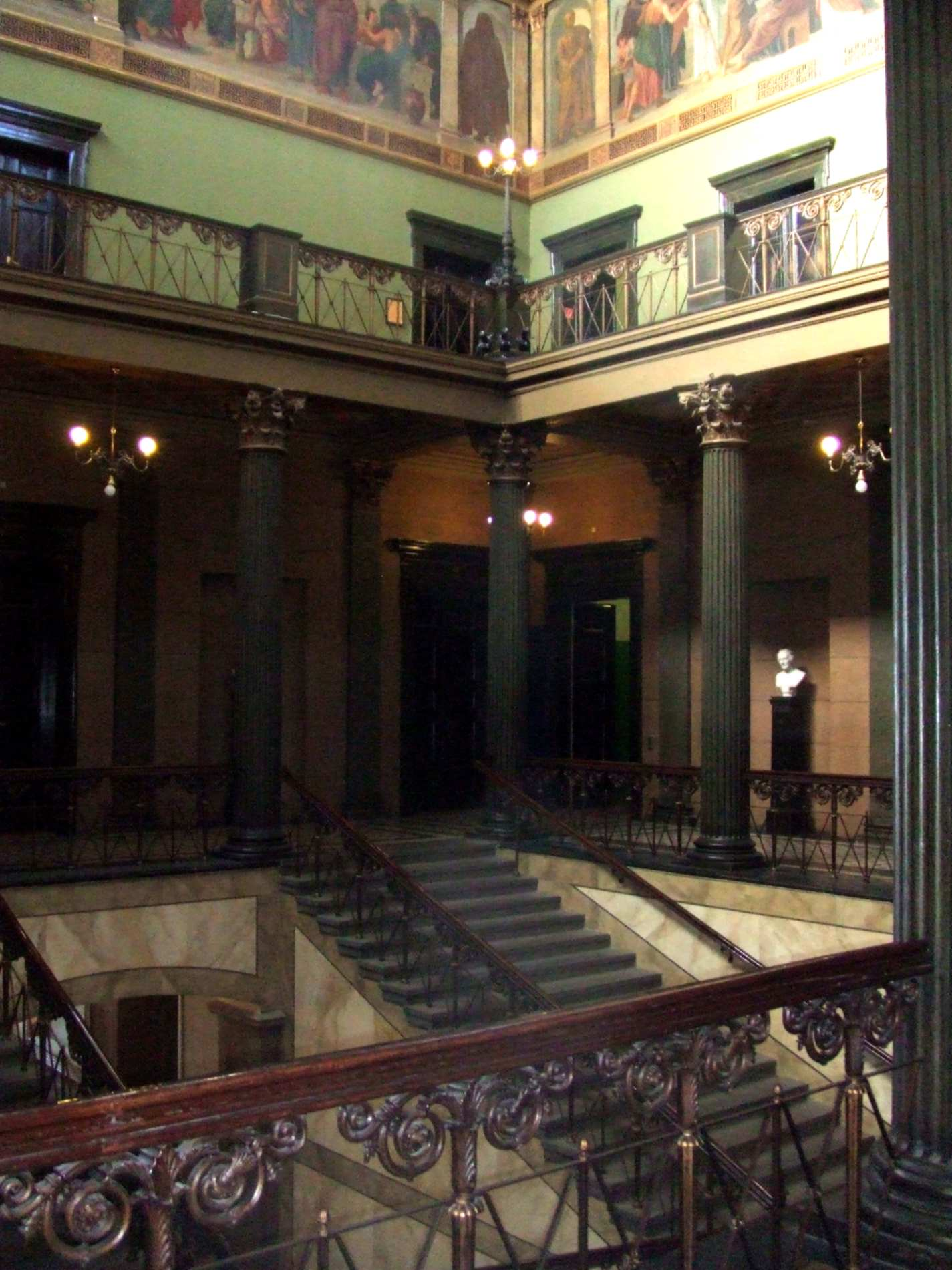 Photo of MLU's Lions' Building, made with Fuji Finepix Z1